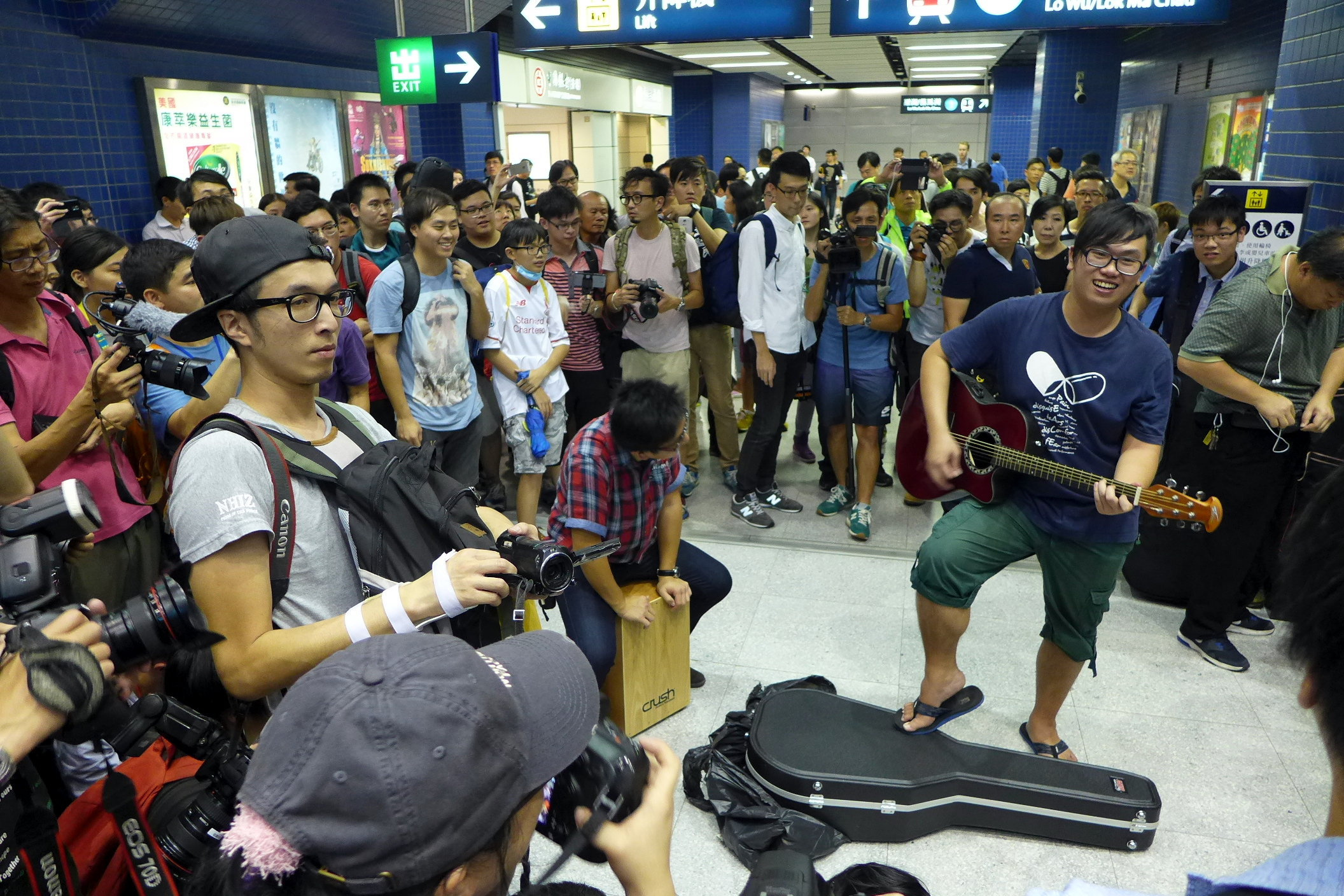 Band show in Tai Wai Station